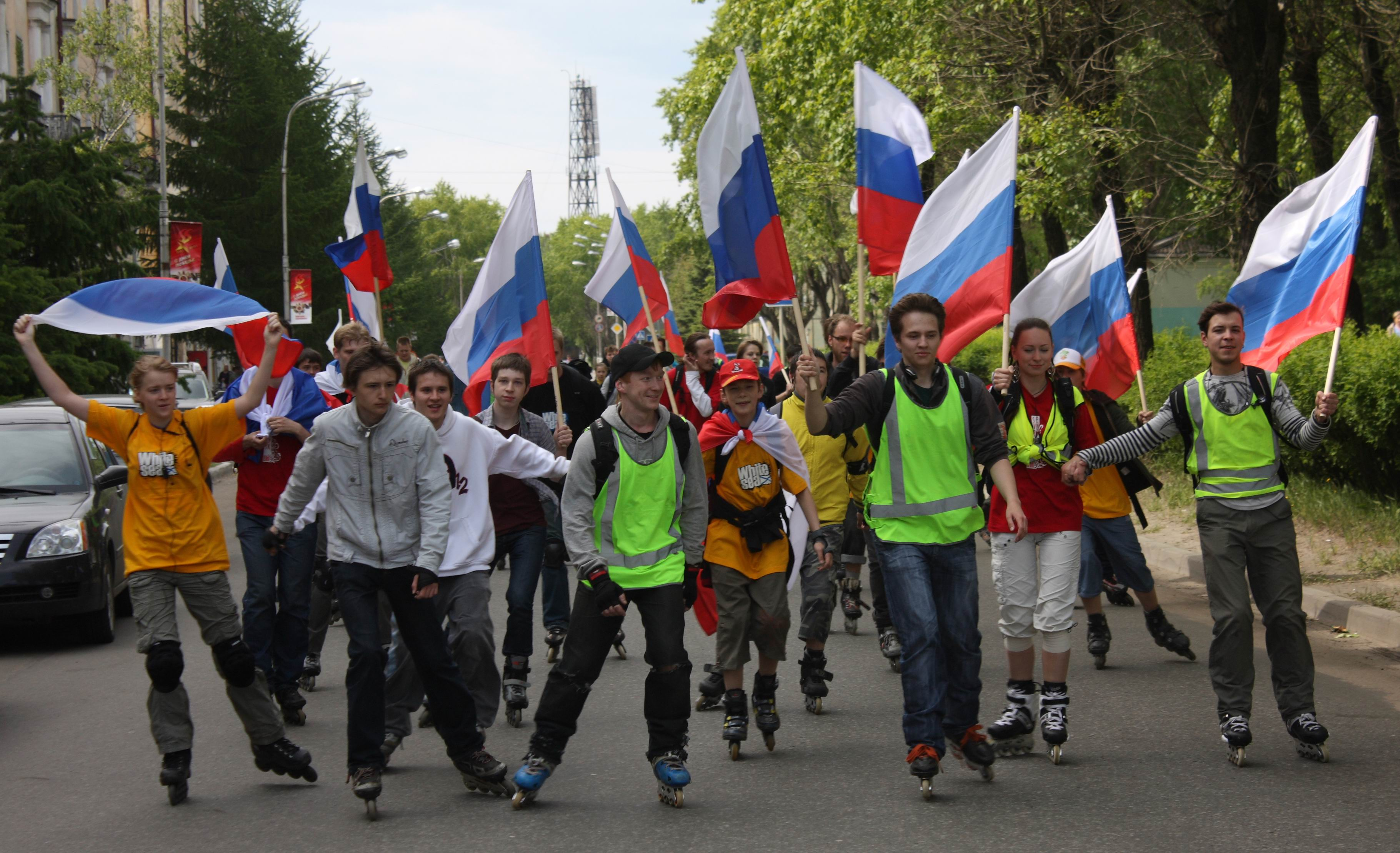 Sport in Severodvinsk